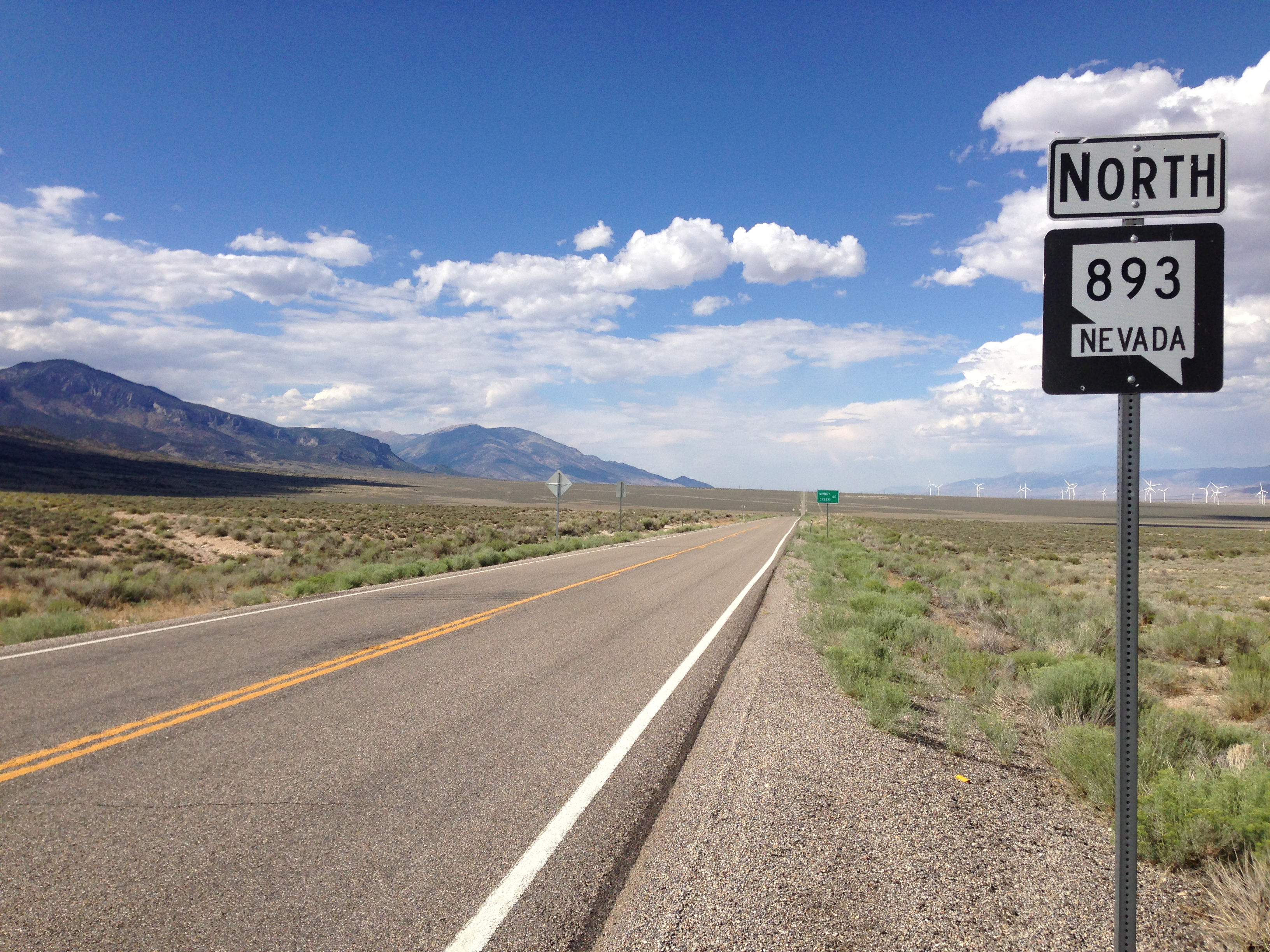 First reassurance sign along northbound Nevada State Route 893 (Spring Valley Road) in White Pine County, Nevada